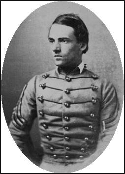 photo of Joseph Wheeler (1836-1906) while attending West Point